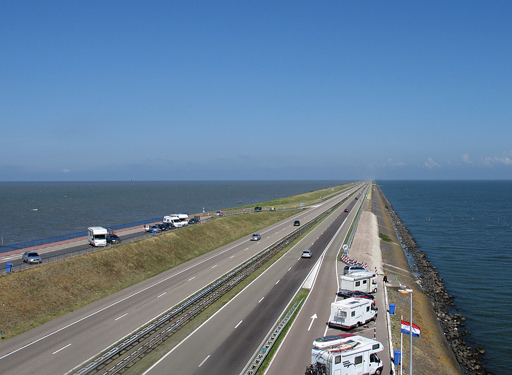 35 km long Afsluitdijk, the Netherlands